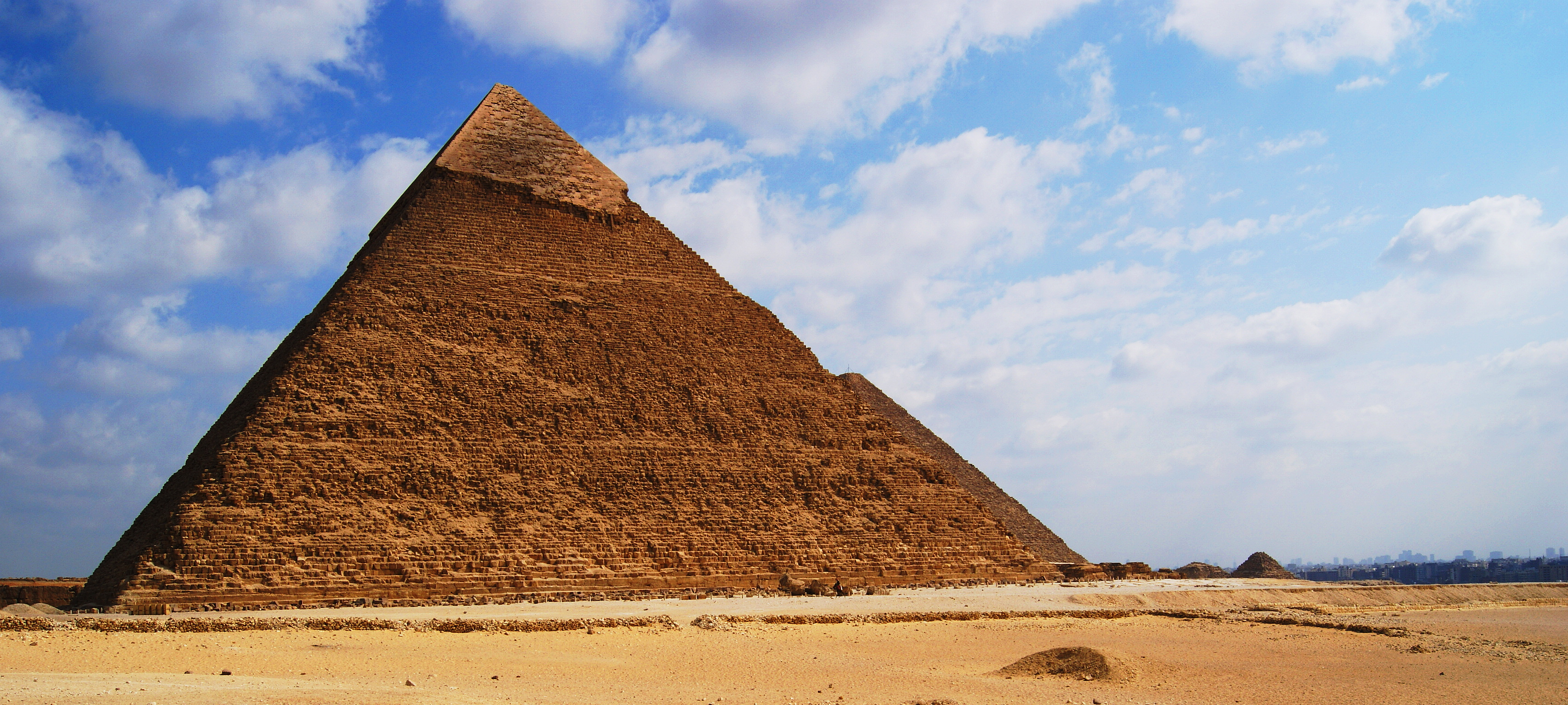 The Pyramid of Khafre is the second largest pyramid of the three , with 448 ft high and base length of 706 ft , located in Giza , Egypt